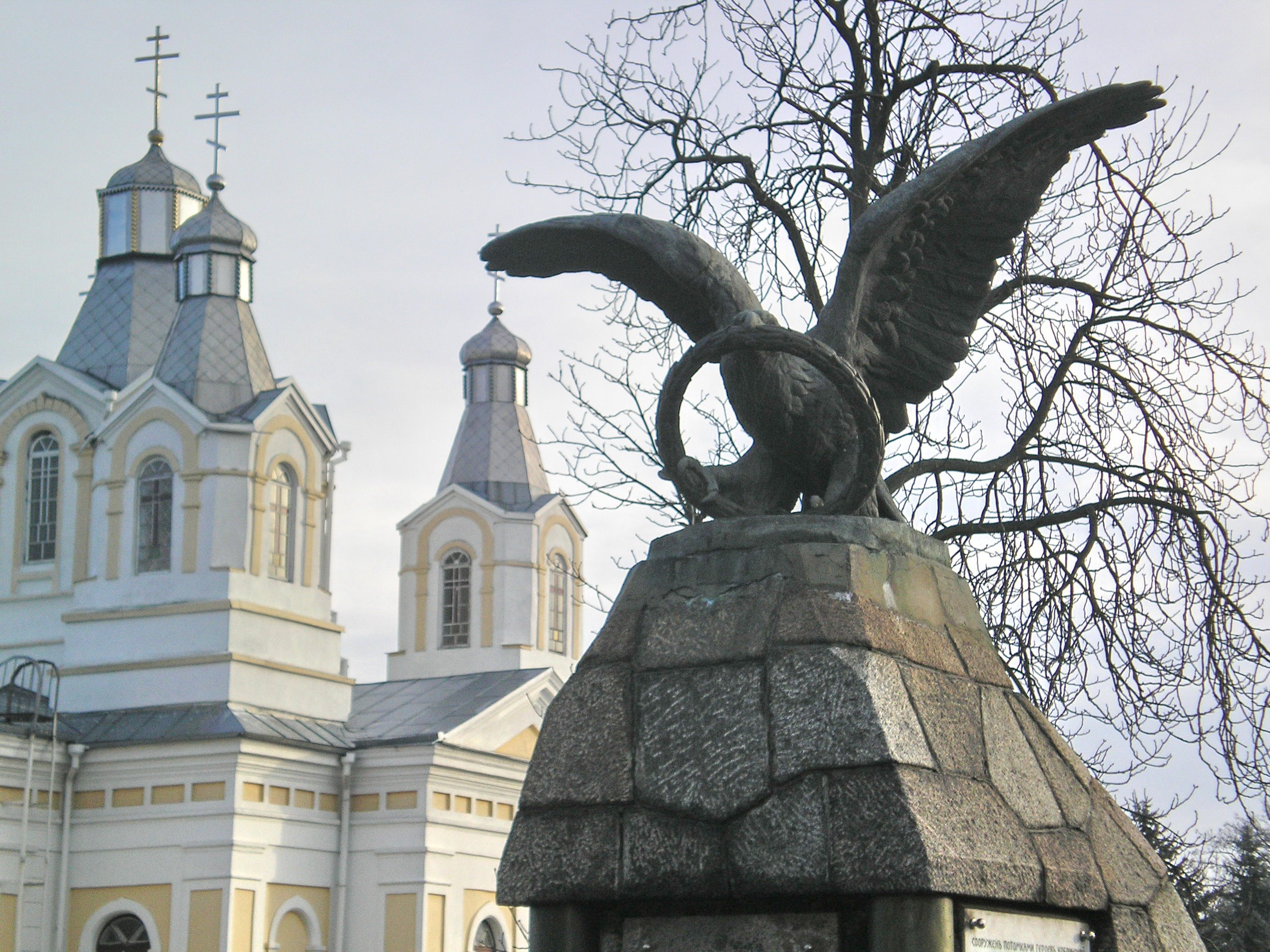 Monument of the victory of Russian army in the Kobrin Battle (1812)